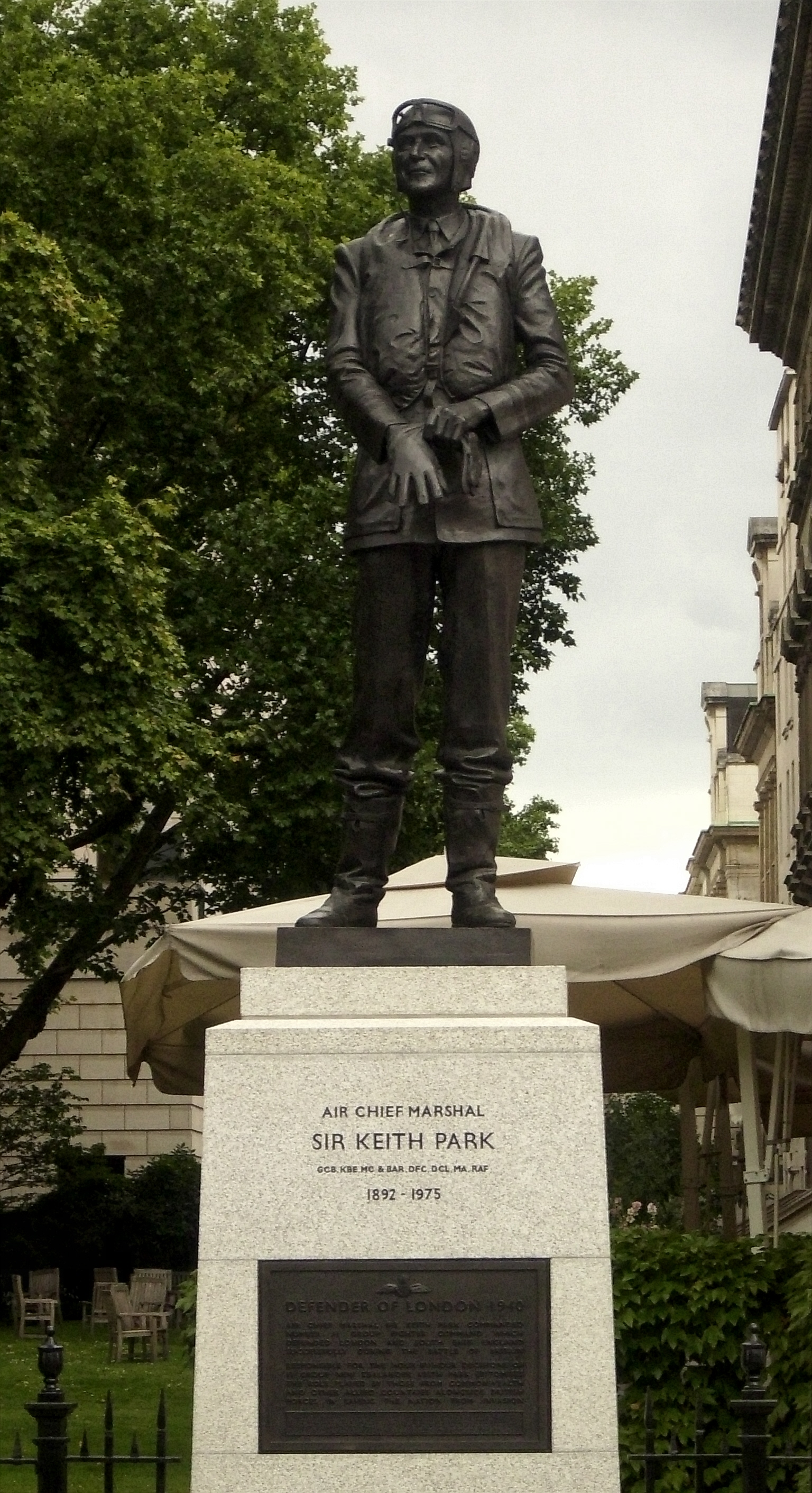 Statue of Sir Keith Park in London at Waterloo Place